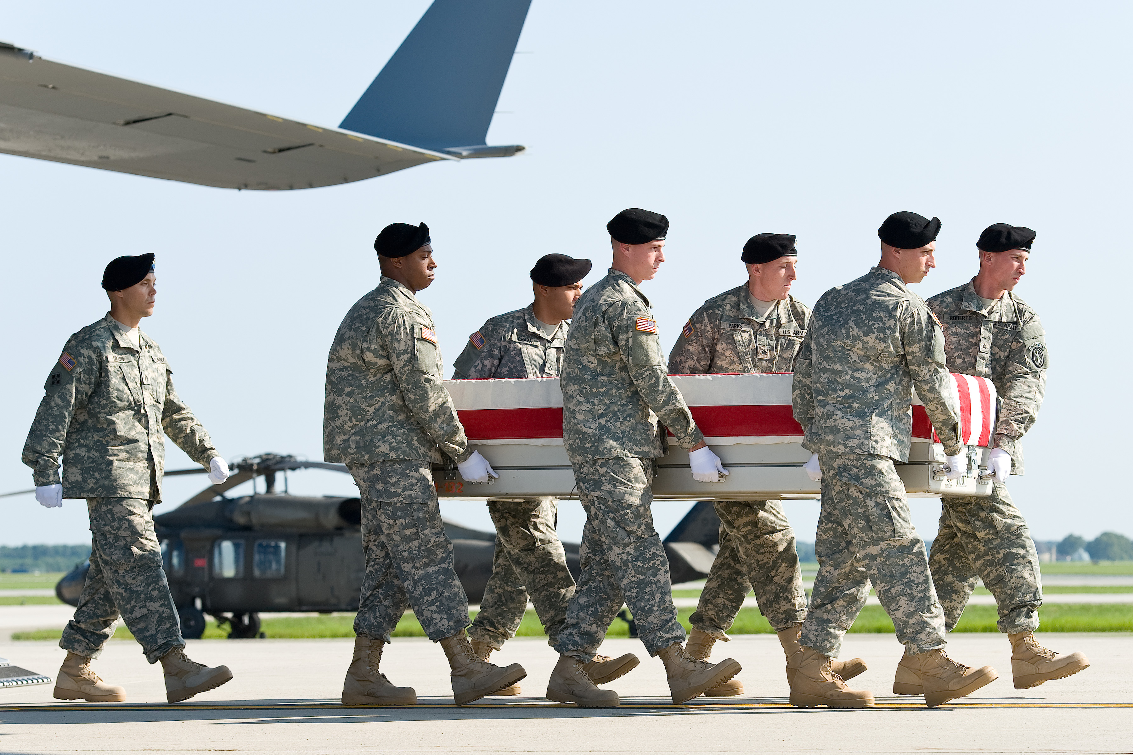 A U.S. Army carry team transfers the remains of Army Maj. Gen. Harold J. Greene of Schenectady, N.Y., Aug. 7, 2014 at Dover Air Force Base, Del. Greene was assigned to the Combined Security Transition Command, Afghanistan.